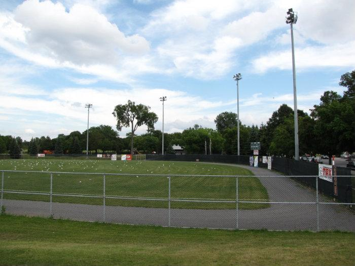 Gary Carter Stadium at Ahuntsic Park in Montreal